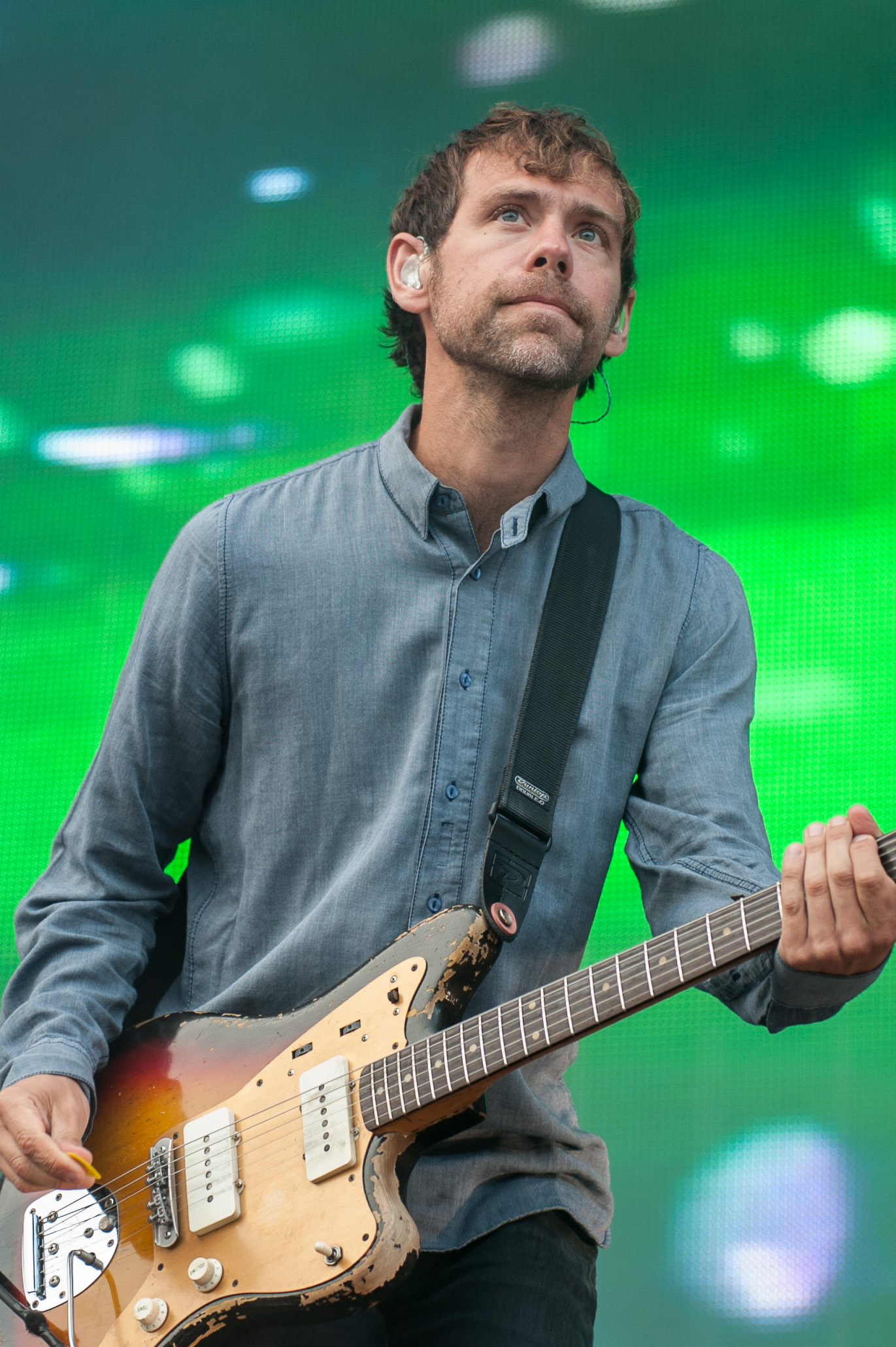 Aaron Dessner of The National at Way Out West in Gothenburg, Sweden, August 2014